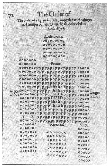 Late 16th century English pamphlet showing a pike and shot formation. The "p" marks are the pikemen, the "o" marks are the shot -- musketeers and arquebusiers.